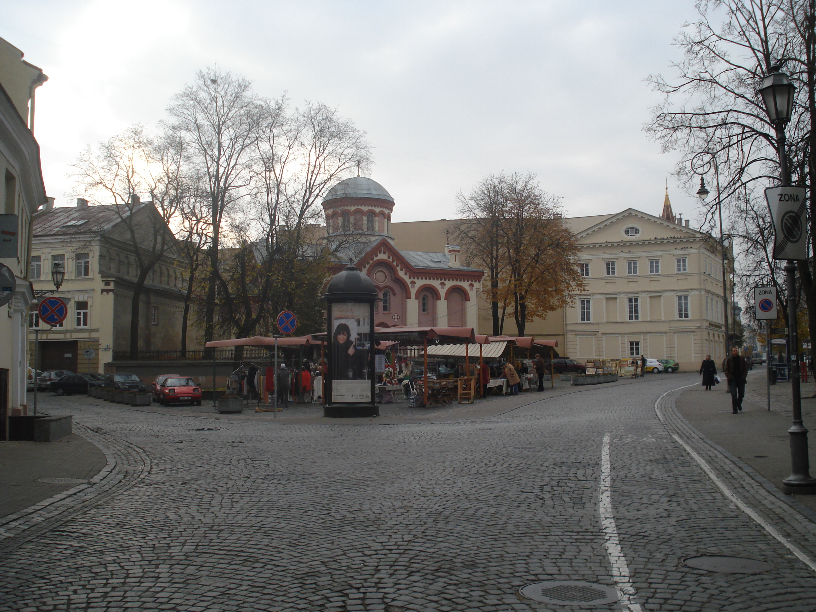 End of Pilies street: Bokšt g. (left), St. Parasceve Orthodox Church and souvenir trading, Didžioji (right)